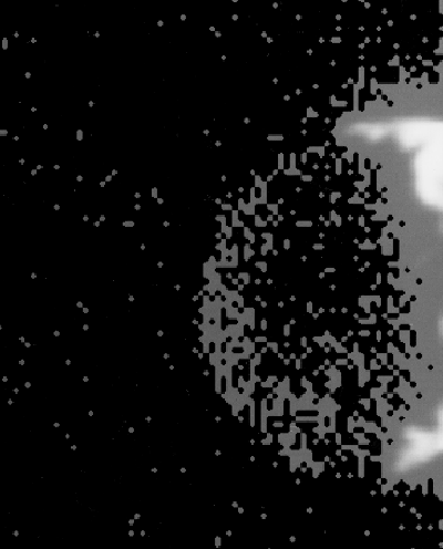 Within seconds of its closest approach to 243 Ida on August 28, 1993, Galileo captured this SSI image of Ida's previously unknown moon orbiting the asteroid. The dark side of this moon is illuminated by light reflected from the sunlit side of Ida, in the same way that Earthshine brightens the dark part of Earth's Moon when only a thin sunlit crescent shows. (P44298)